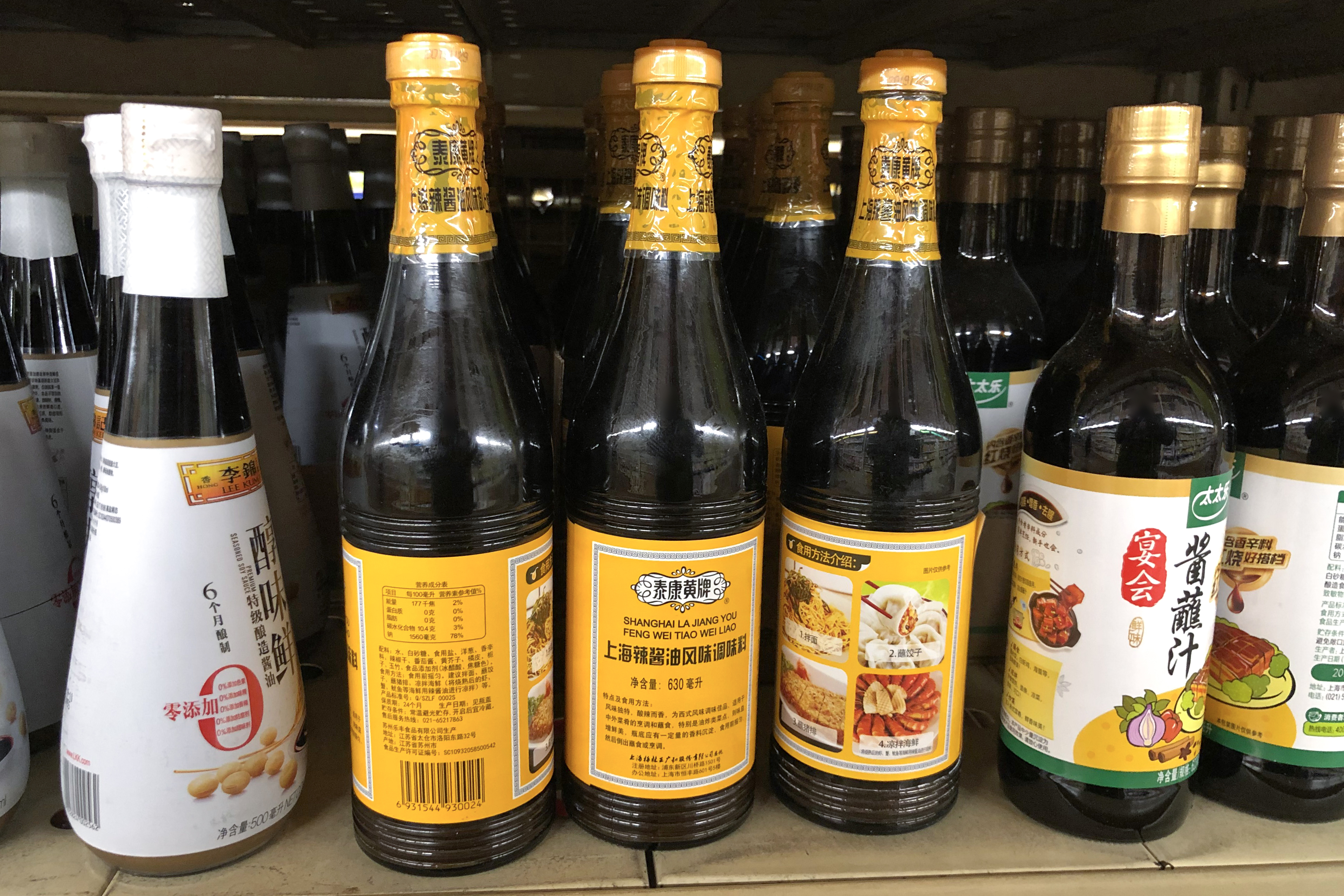 Made in Suzhou.